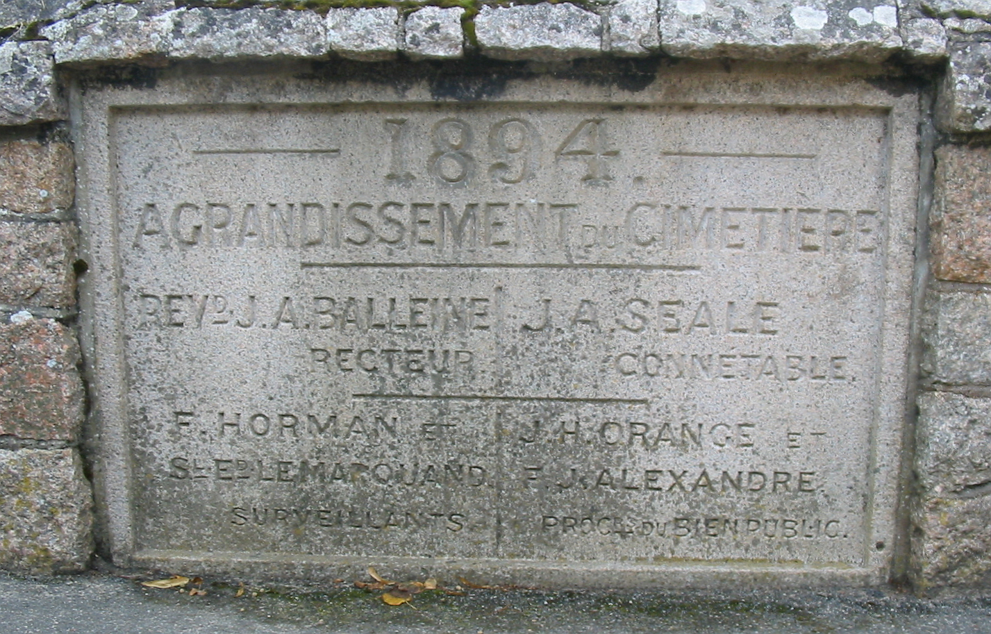 Saint Brelade, Jersey, 2 August 2009